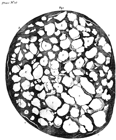 Painting of optic nerve by Antonie van Leeuwenhoek (1674)